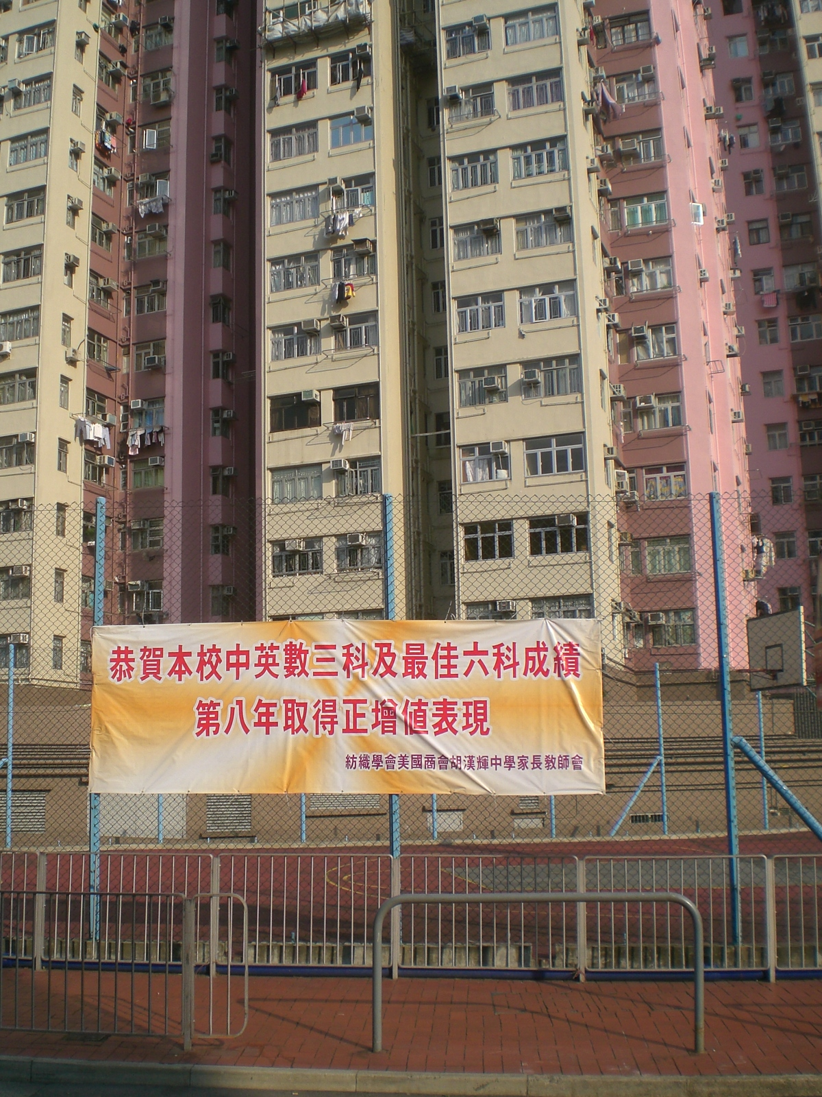 荃灣 安賢街 紡織學會美國商會 胡漢輝中學zh:橫額, 背景為 荃灣中心